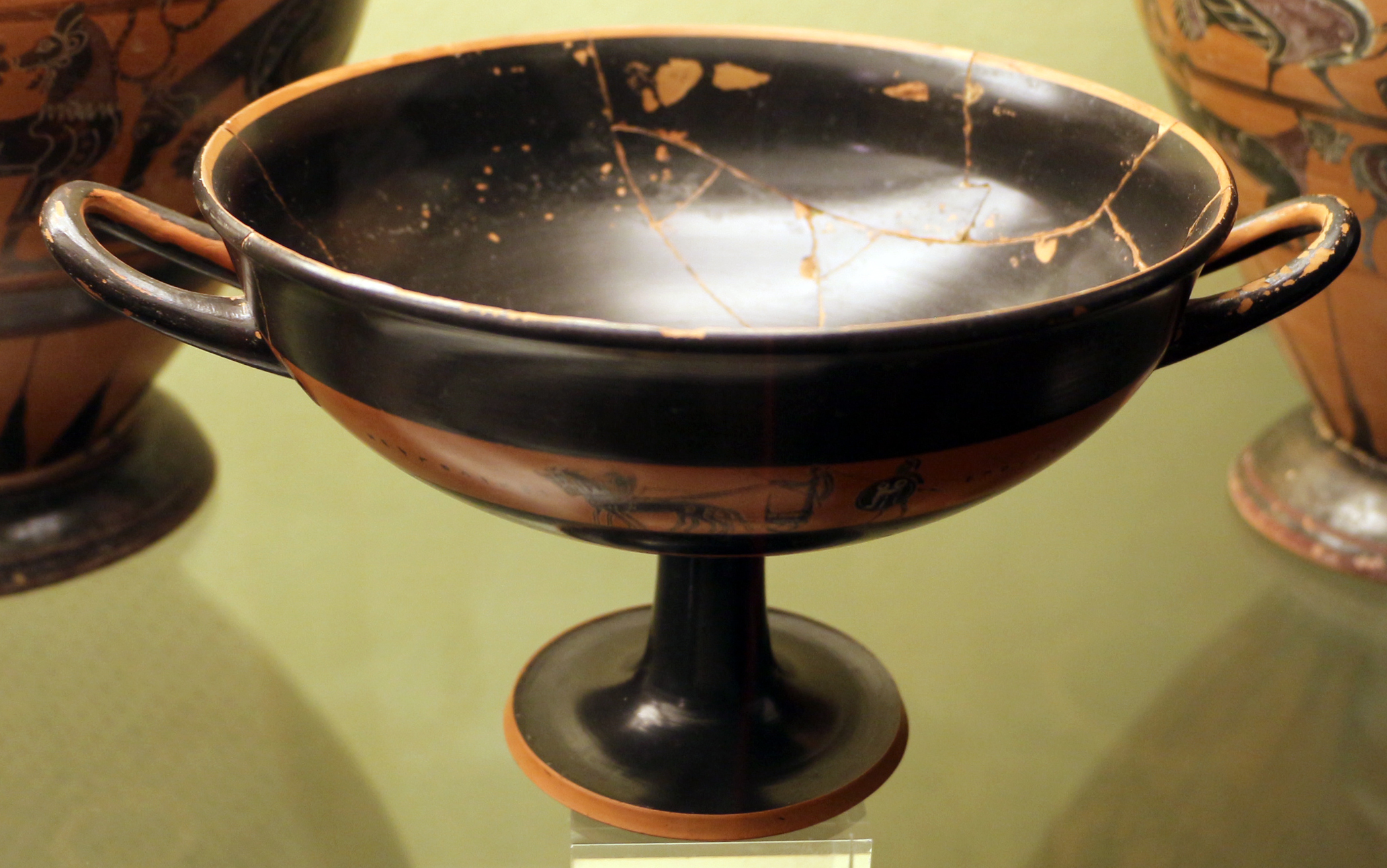 pottery in the Museo archeologico di Firenze